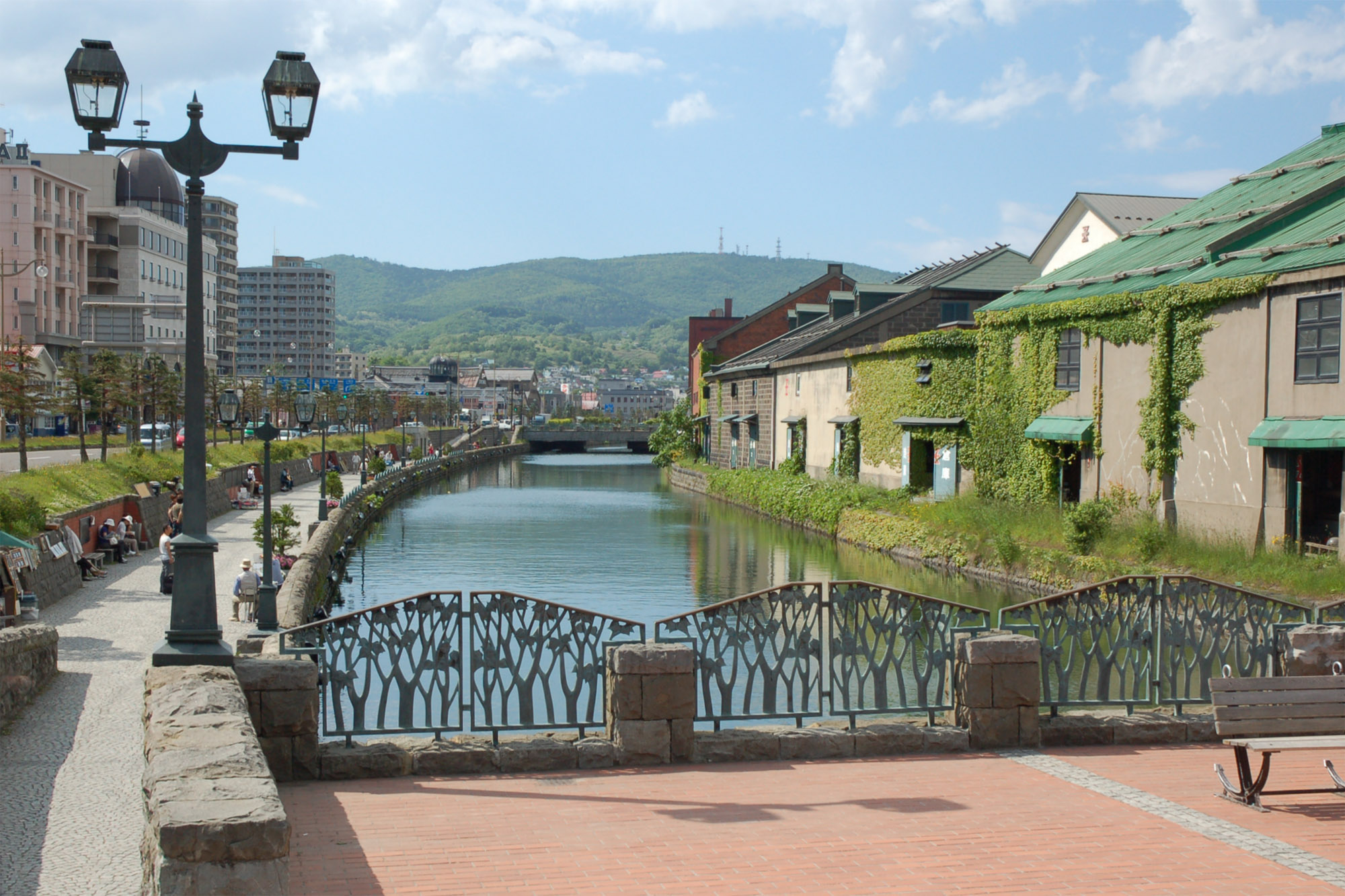 Otaru Canal